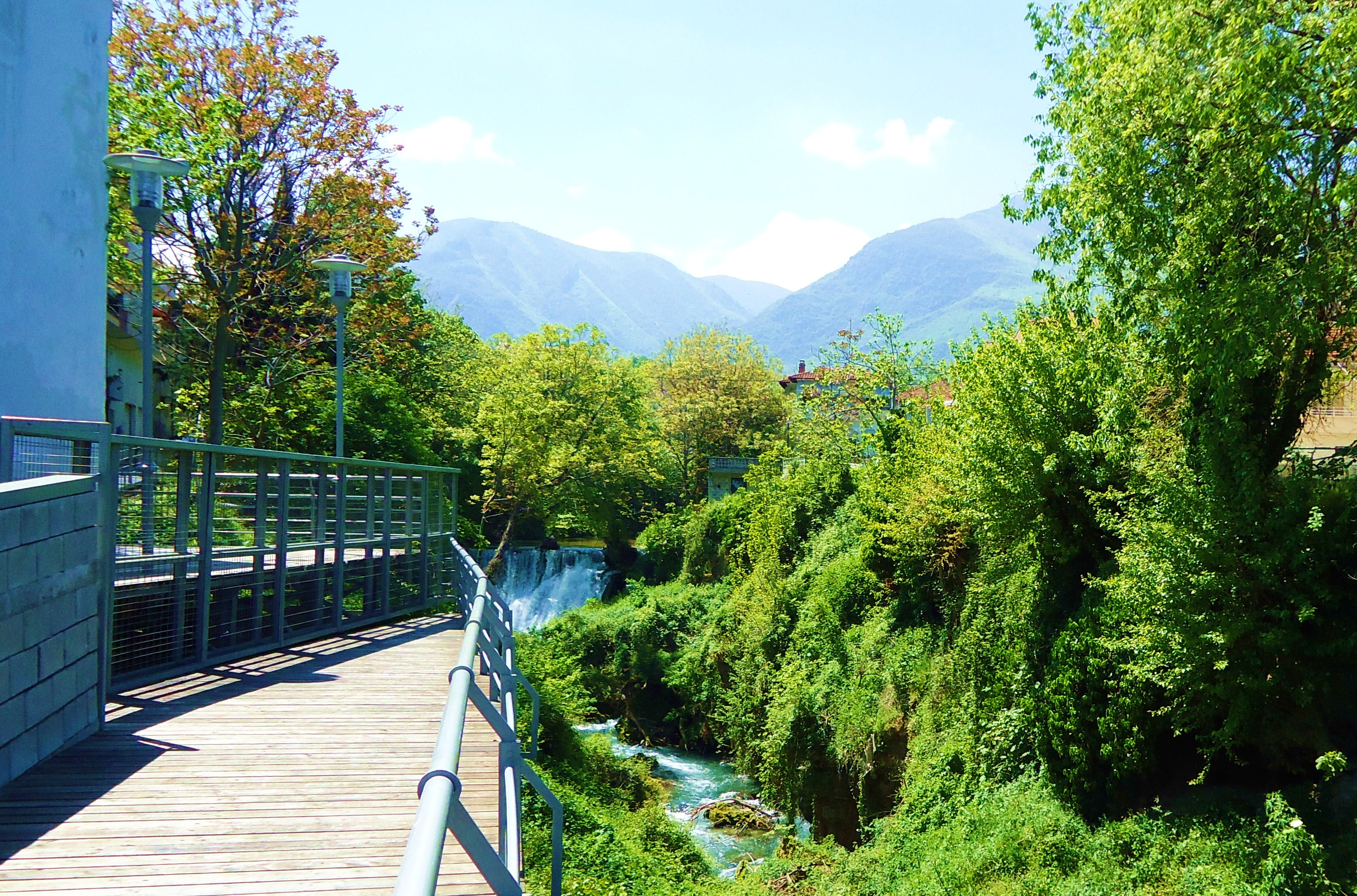 In the town of Naousa, Macedonia, Greece (Arapitsa river)